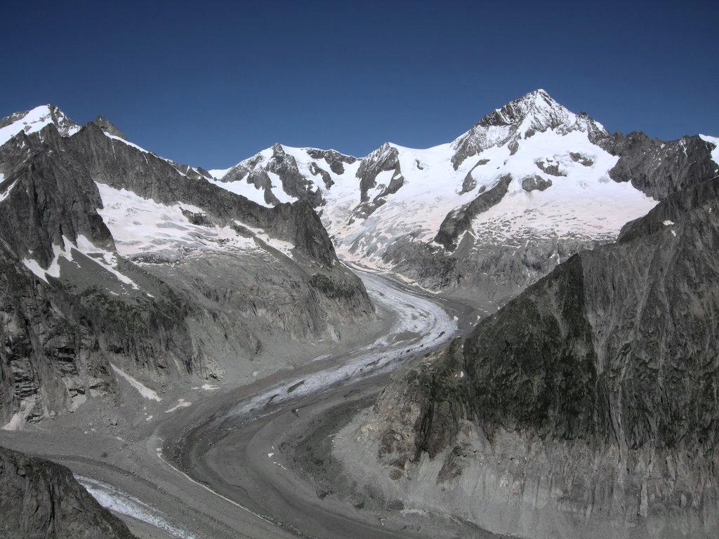 Oberaletschgletscher and Aletschhorn, Bernese Alps (Valais)